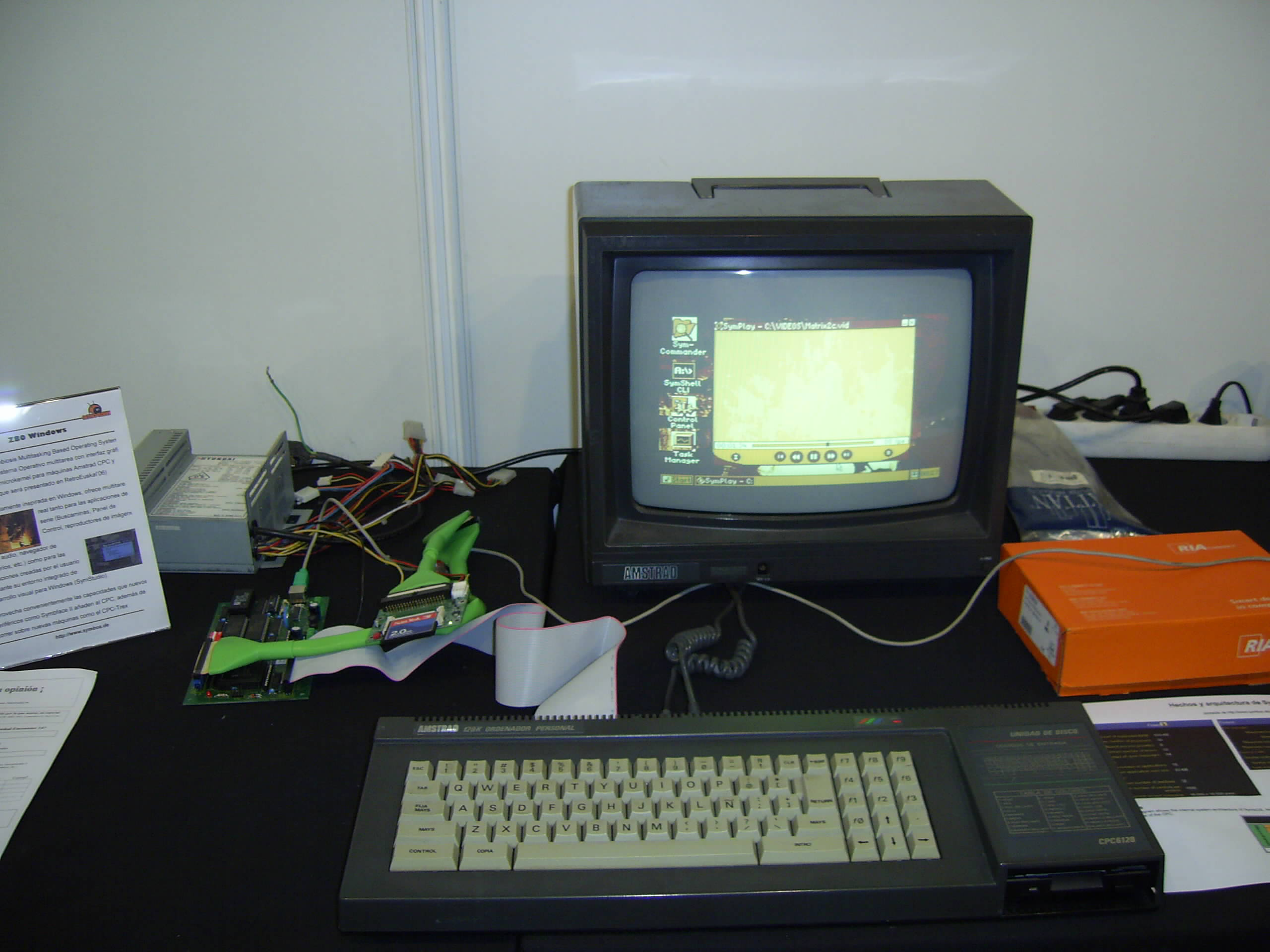 Amstrad CPC 6128 (GTM640 colour monitor) with SYMBiFACE II and adaptator CompactaFlash-IDE, running Video player at SymbOS.